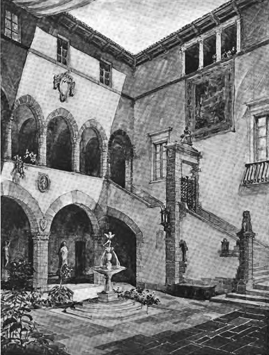 An drawing depicting a building's internal courtyard by the architectural firm Cram and Ferguson of Boston, Massachusetts from a 1920 proposal for the Currier Art Gallery in Manchester, New Hampshire.